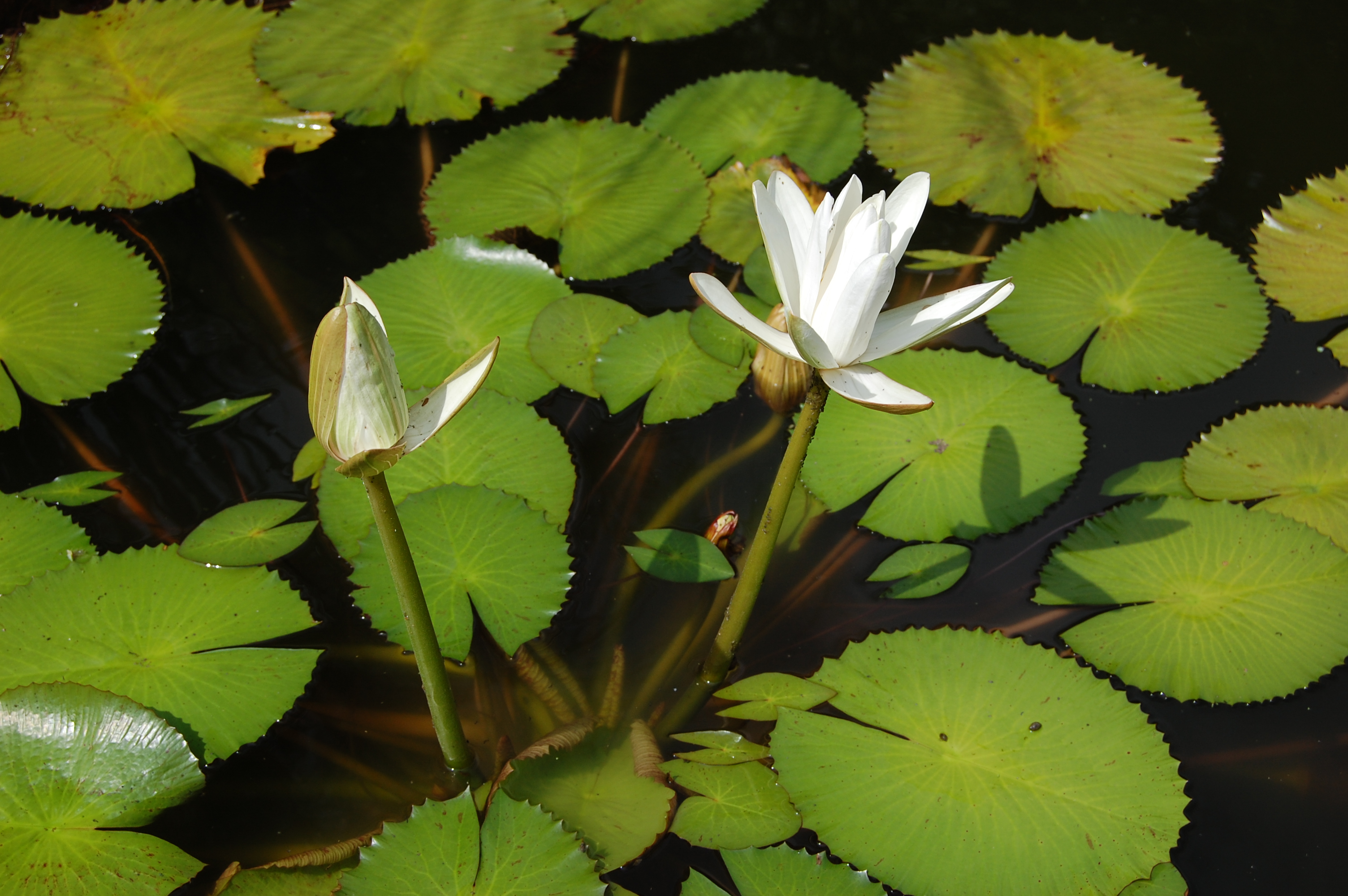 Nymphaea lotus, cultivated, Switzerland.